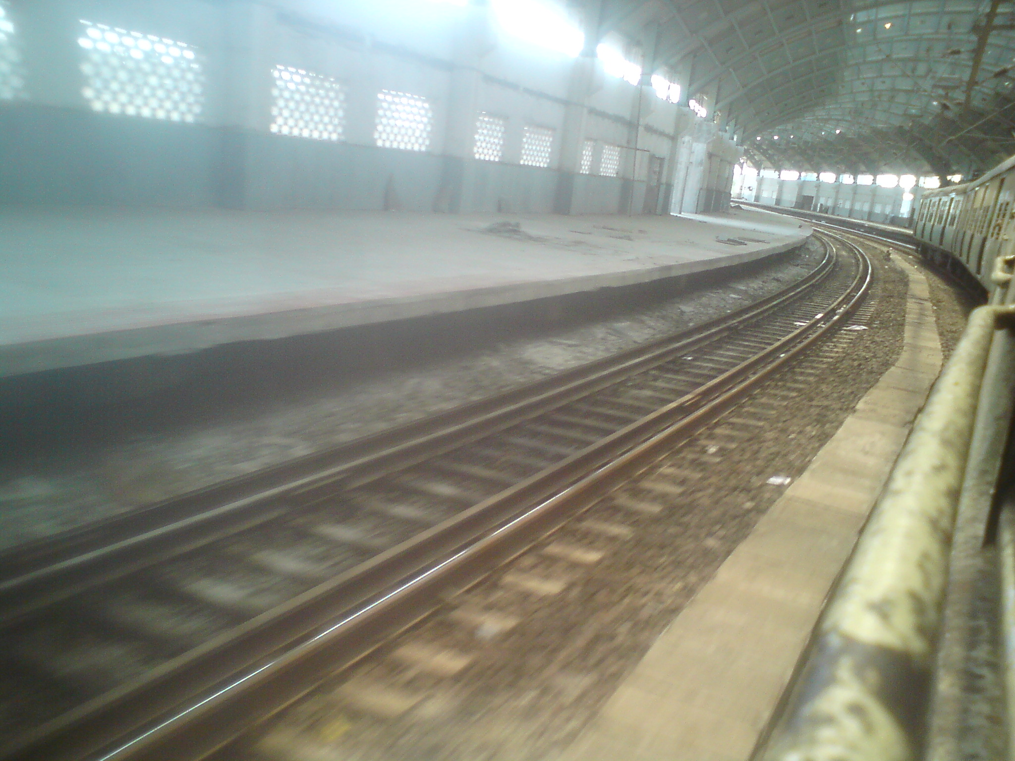 Mundakanni Amman Koil MRTS Station Under Construction as seen from an MRTS Train heading to Chennai Beach. The picture was taken in November 2012